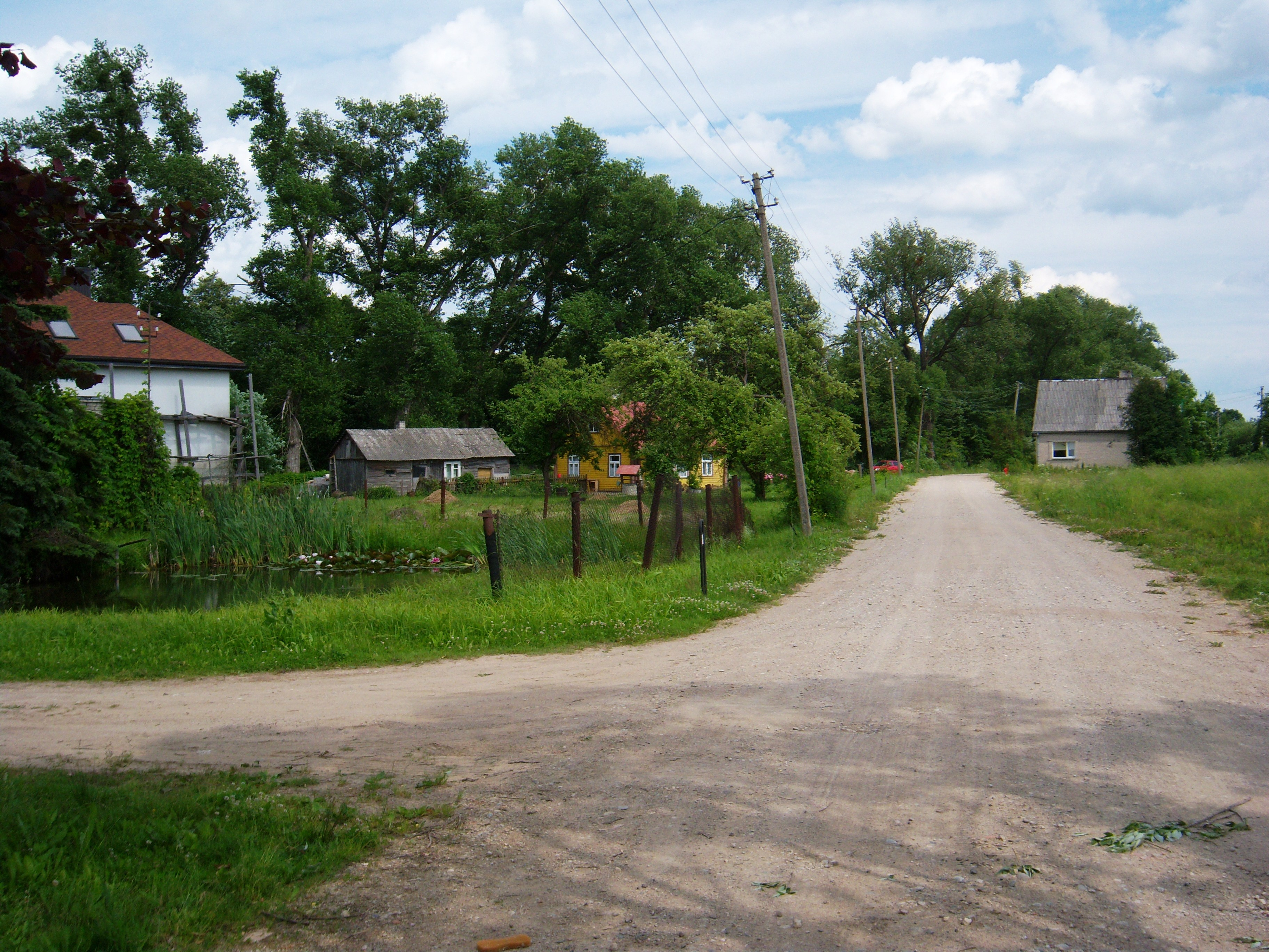 Kadagių kelias, Zuikinė, Kaunas. Lithuania